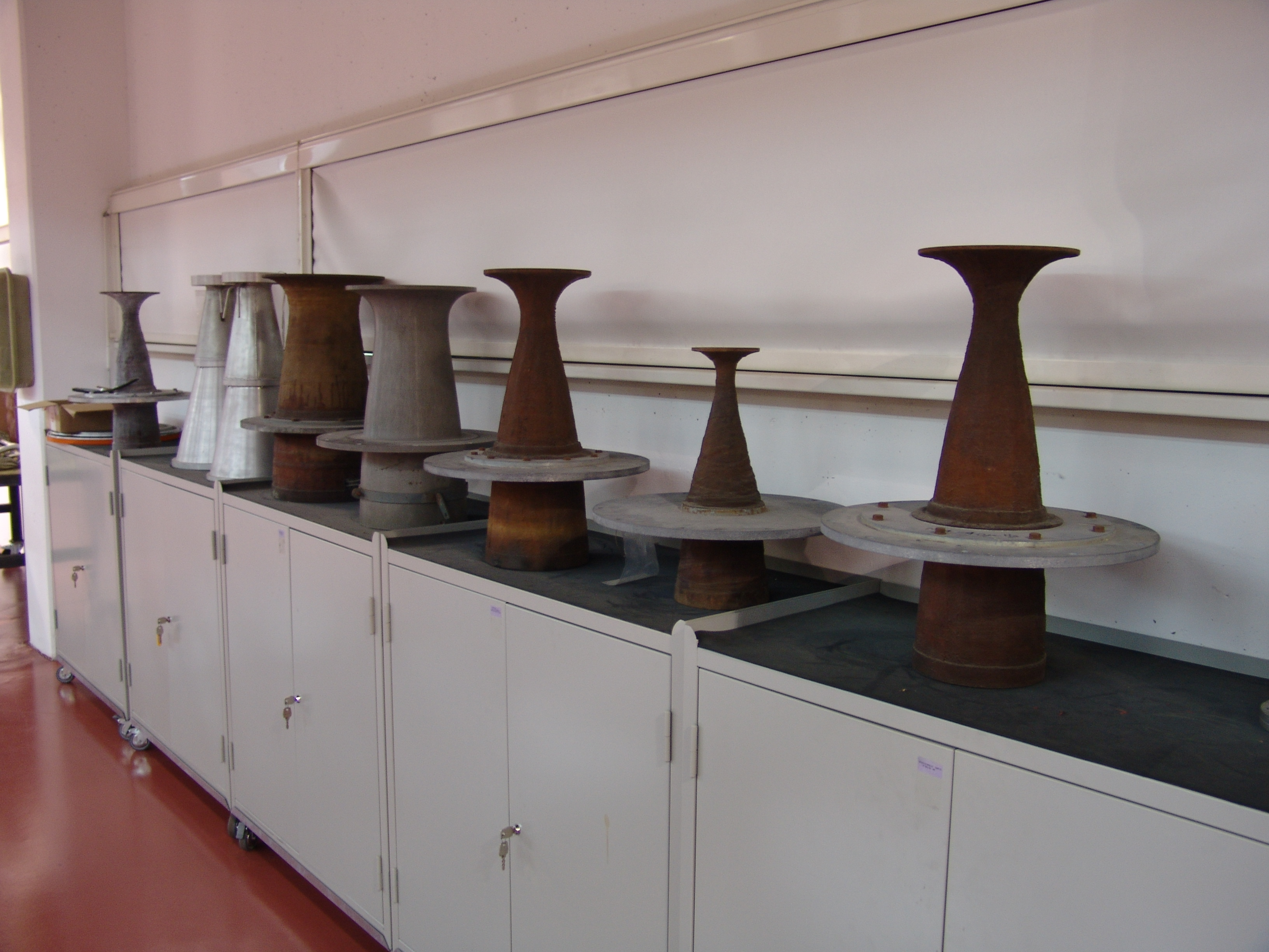 Supersonic nozzles of the facility Marhy (plateforme FAST, ICARE, CNRS Orléans)